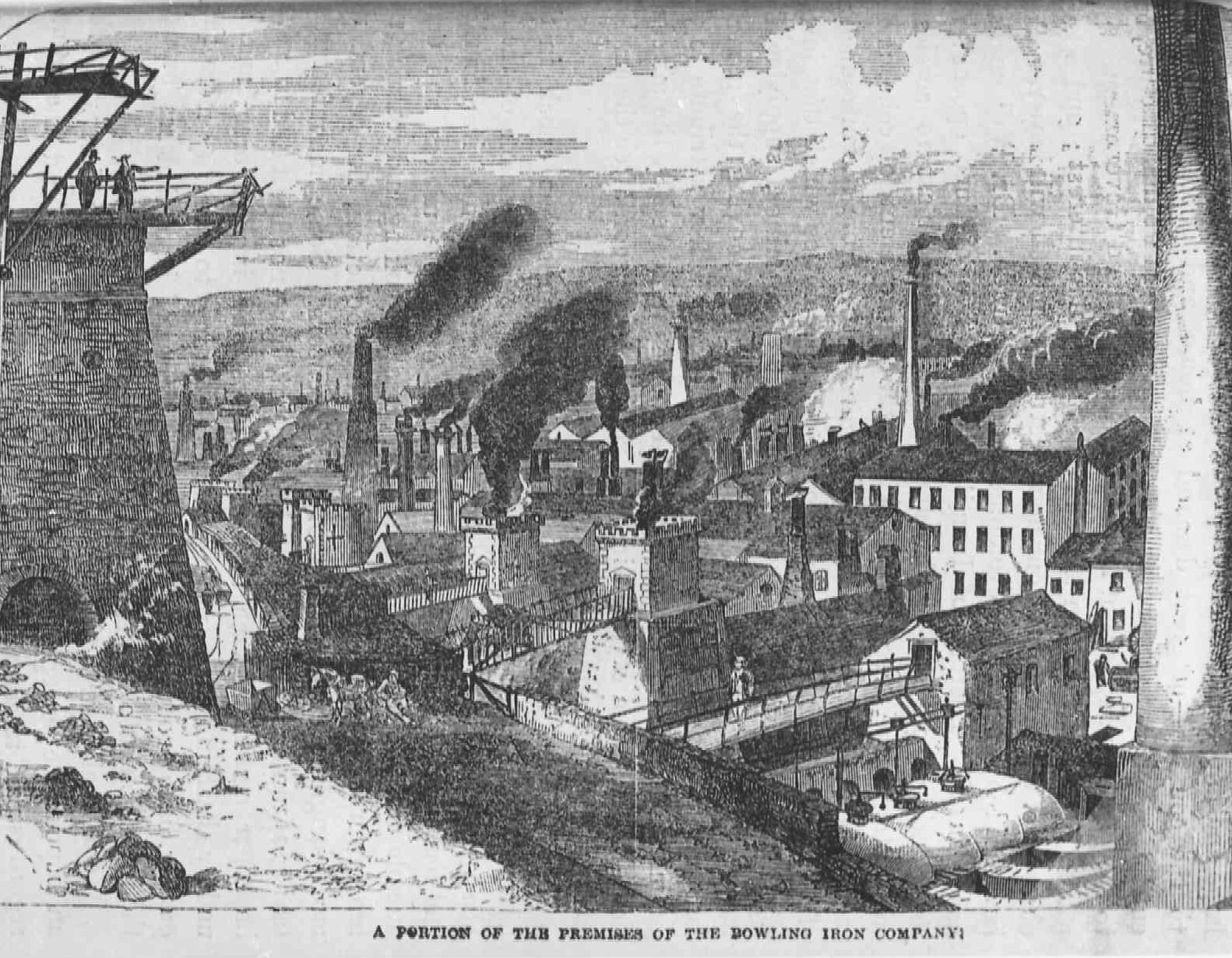 View of a portion of the Bowling Iron Company works at Bowling, Bradford, England